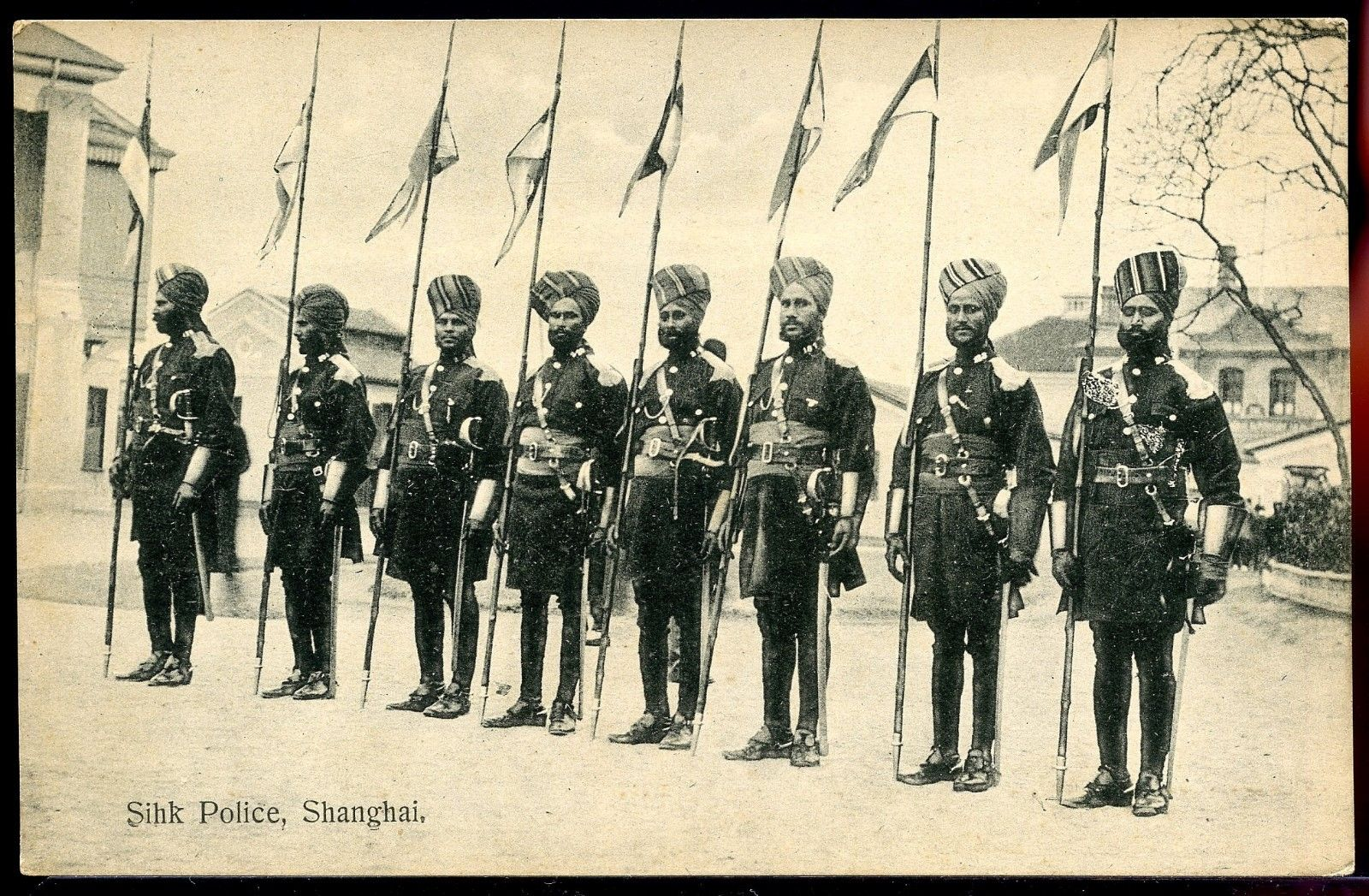 Sihk Police, Shanghai